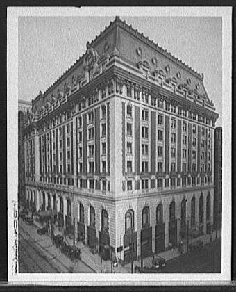 A postcard of the Sinton Hotel for use on the article of David Sinton